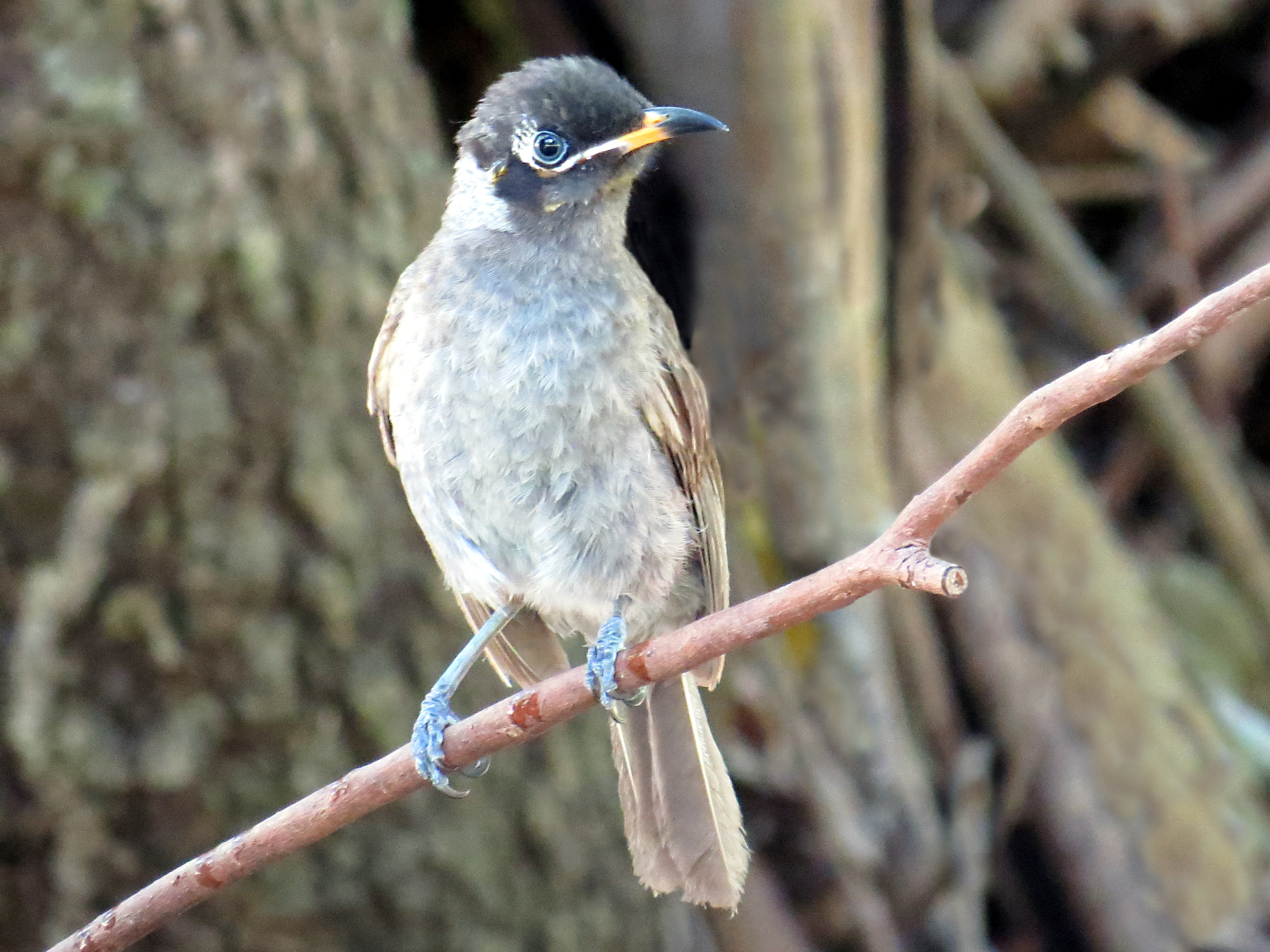 Bridled honeyeater (Lichenostomus frenatus) at Julatten, Queensland, Australia.